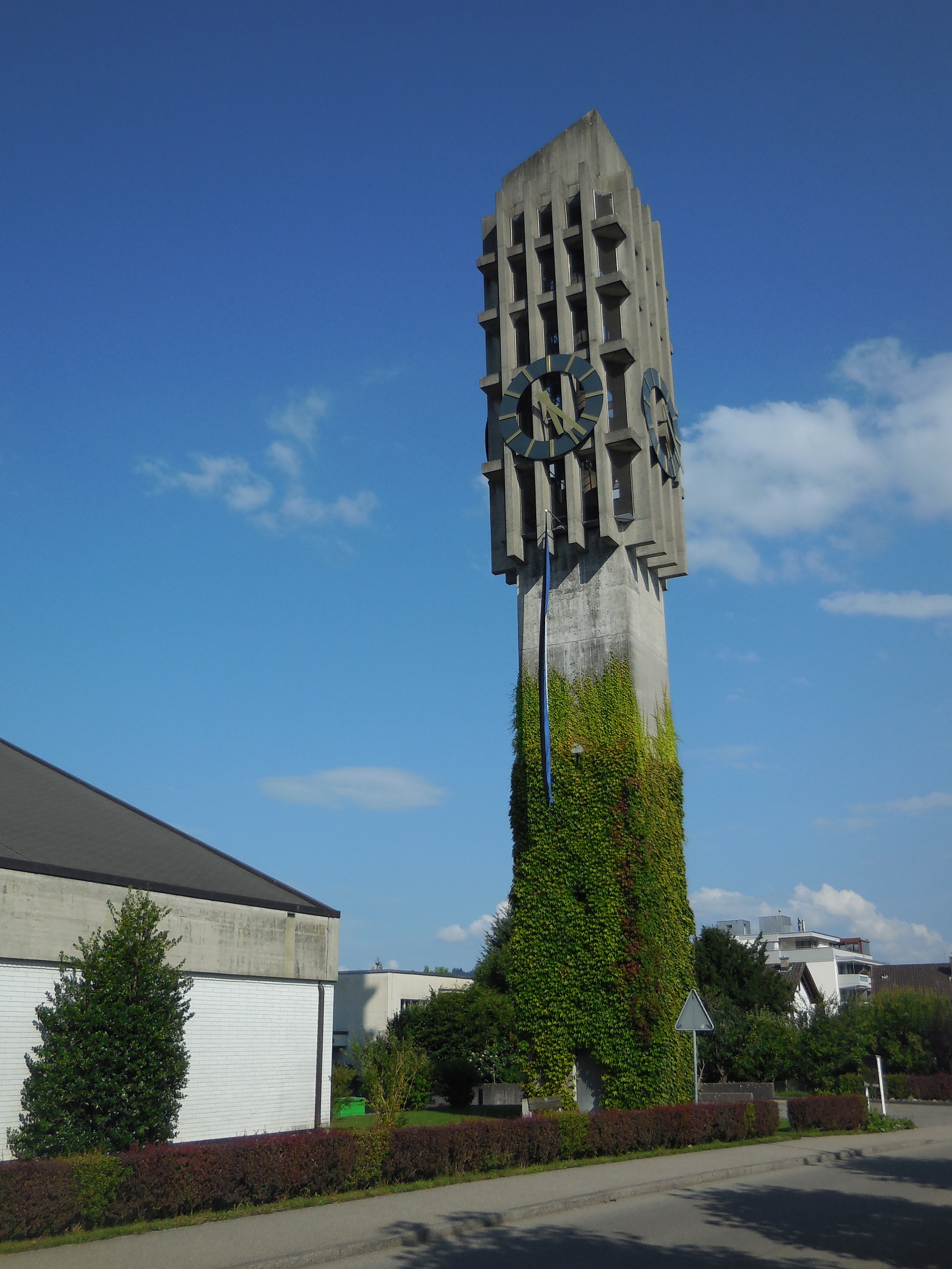 Protestant church of Strengelbach